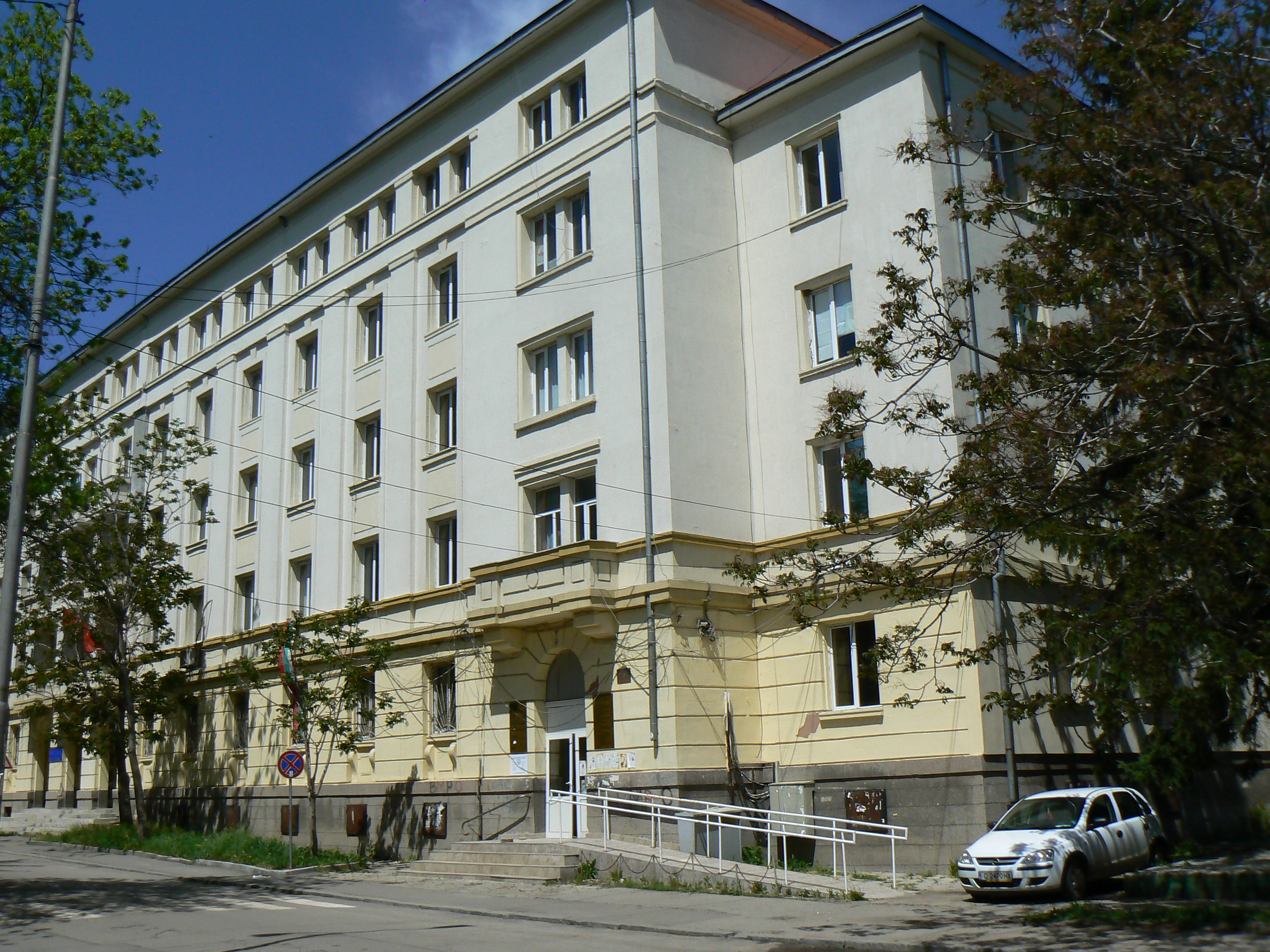 Pernik District Council of the Bulgarian Red Cross, 1 Radomir Str., Pernik